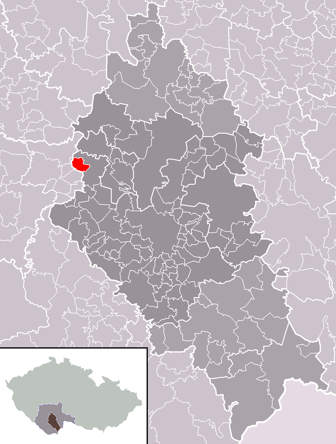 Location of Hlavatce municipality within České Budějovice District and administrative area of České Budějovice as a Municipality with Extended Competence.